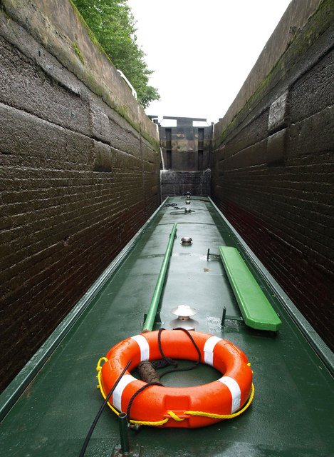 In the depths of Stoke Top Lock. At only seven feet wide, but over ten feet deep, a sense of claustrophobia inevitably takes over from the tiller of a narrowboat when first entering this lock through its bottom gates!